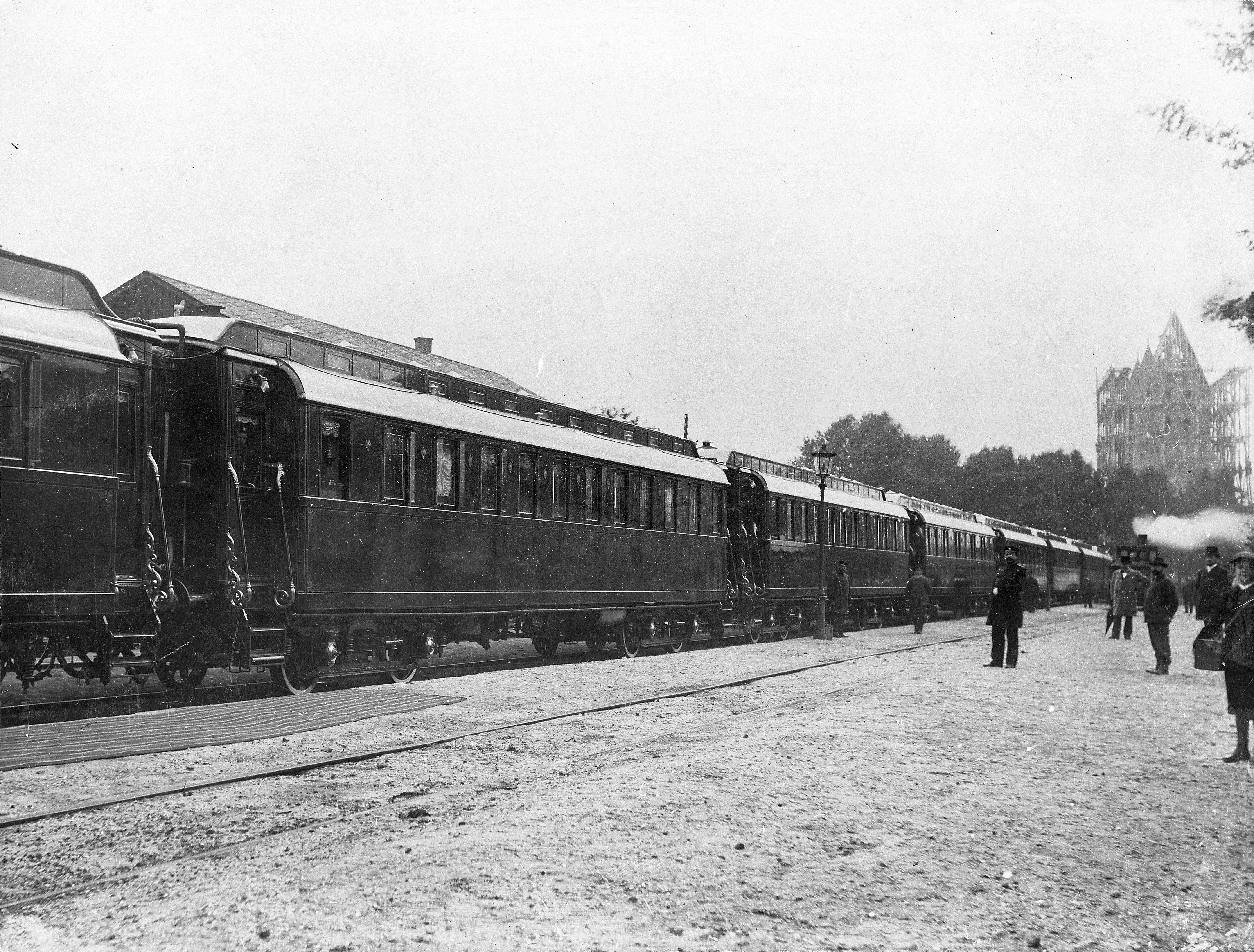 Imperial train of tsar Niclas II. of Russia parked in Rosengarten railway station (today: Lampertheim, Hesse, Germany. This train was used by Nicolas II. when travelling in Western Europe on 1435 mm gauge. The dating of the picture by: Ralph Häussler: Eisenbahnen in Worms. Hamm 2003. ISBN 3-935651-10-4, p. 34. In the background: The building site of the eastern tower of the Großherzog-Ernst-Ludwig-Brücke (today: Nibelungenbrücke) which was inaugurated in March 1900.